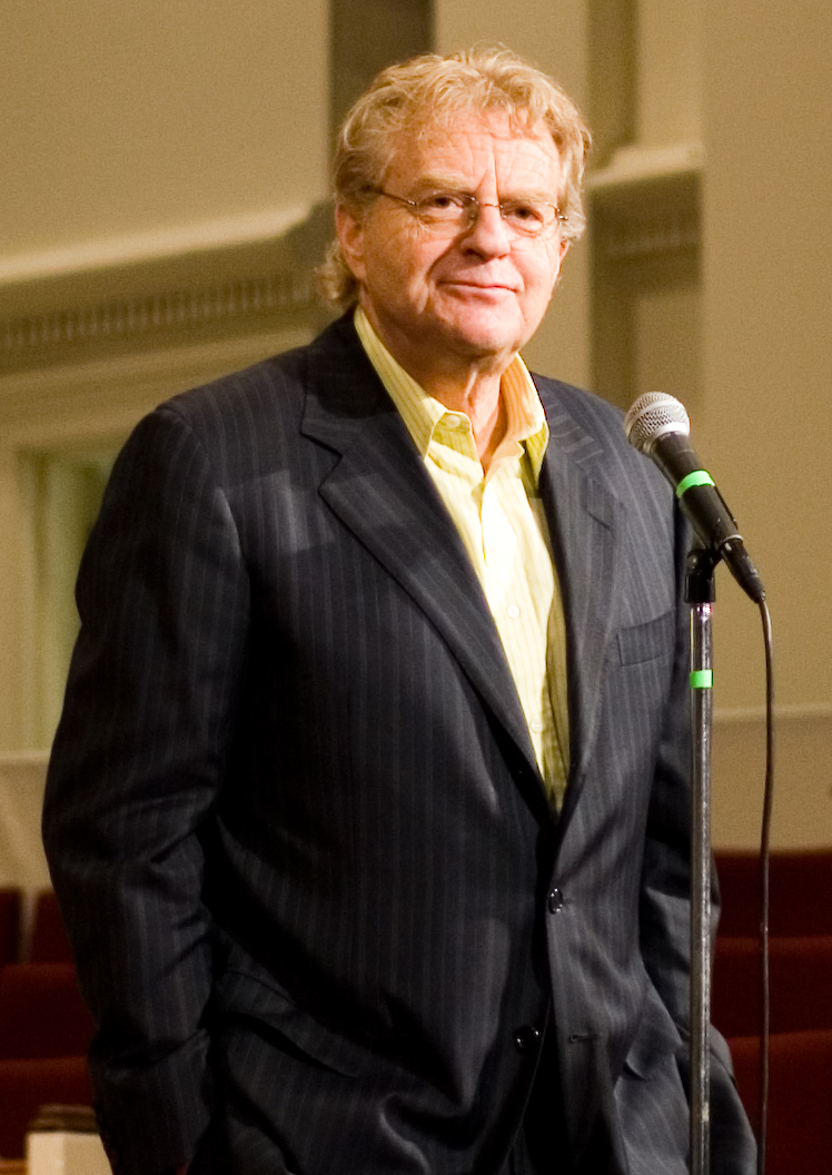 Jerry Springer at Emory University